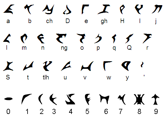 The Klingon Language Institute's (KLI) klingon alphabet and numbers.